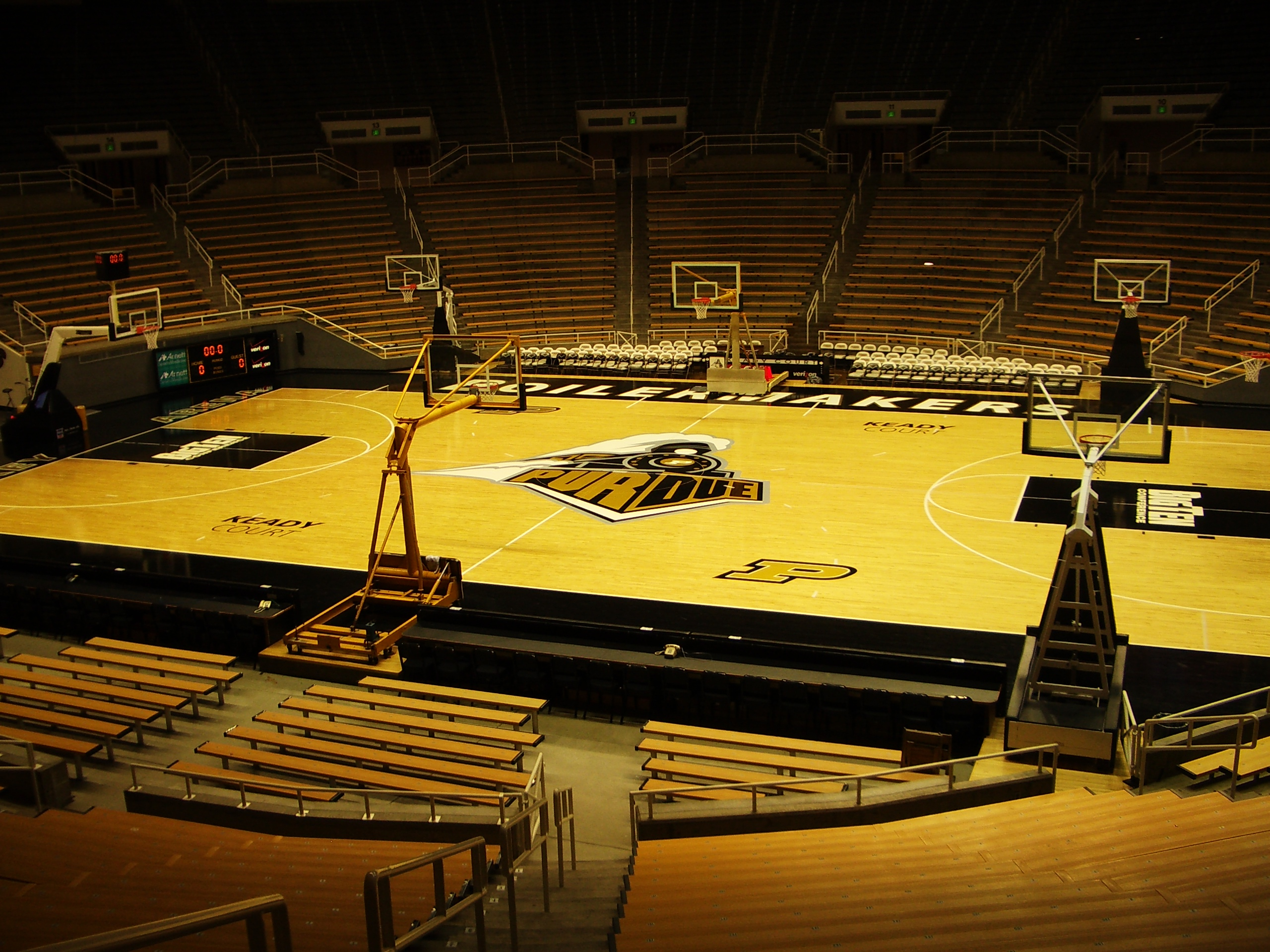 Keady Court inside of Mackey Arena, at Purdue University in West Lafayette, IN